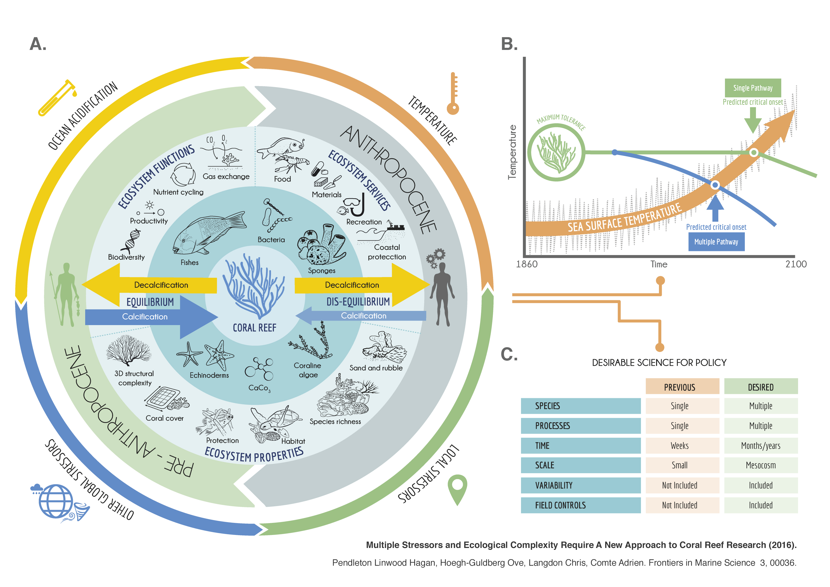 Multiple Stressors and Ecological Complexity Require A New Approach to Coral Reef Research (2016). Pendleton Linwood Hagan, Hoegh-Guldberg Ove, Langdon Chris, Comte Adrien. Frontiers in Marine Science 3, 00036. A conceptual framework describing ecological processes that contribute to coral reefs growth and maintenance versus the biological and anthropogenic factors that can work against these processes. The inner circle depicts important coral reef ecosystem constituent species. The next circle represents ecosystem features that are important to people. The next circle, along with the arrows showing calcification and decalcification illustrates that in pre-Anthropocene times coral reefs experienced net growth where calcification probably exceeded decalcification; the balance has been reversed at some time during the Anthropocene. The outermost circle captures key environmental stressors that affect coral reef health and determine whether coral reefs grow or decline (inspired by Cinner et al. 2015). Funding for this study was provided by the Prince Albert II Foundation. To read this study, visit ( Linwood Pendleton is available for comment by contacting Erin McKenzie, .